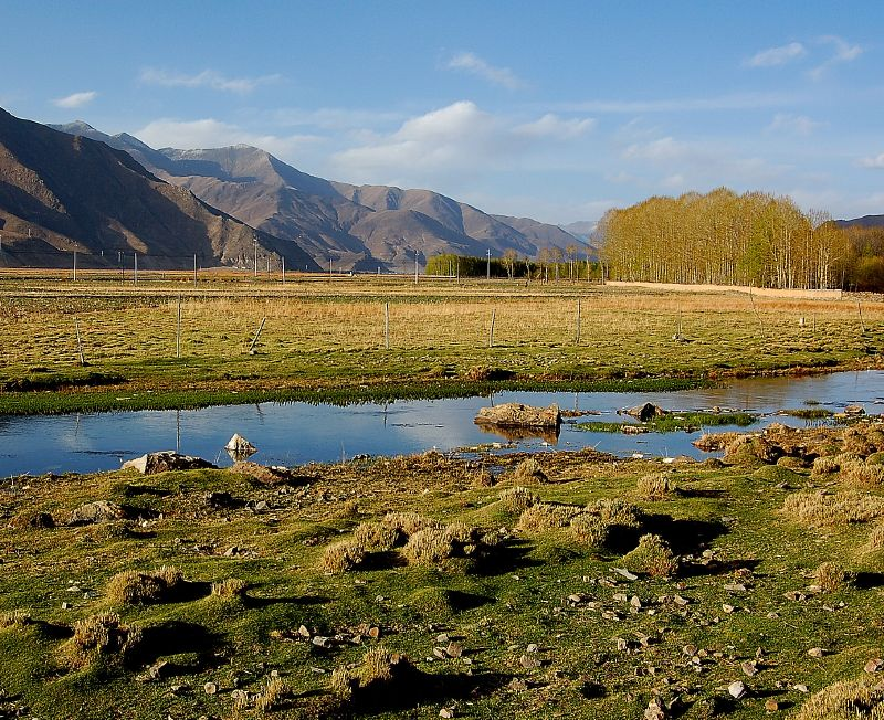 The Nyang River in Tibet, near Lhasa.